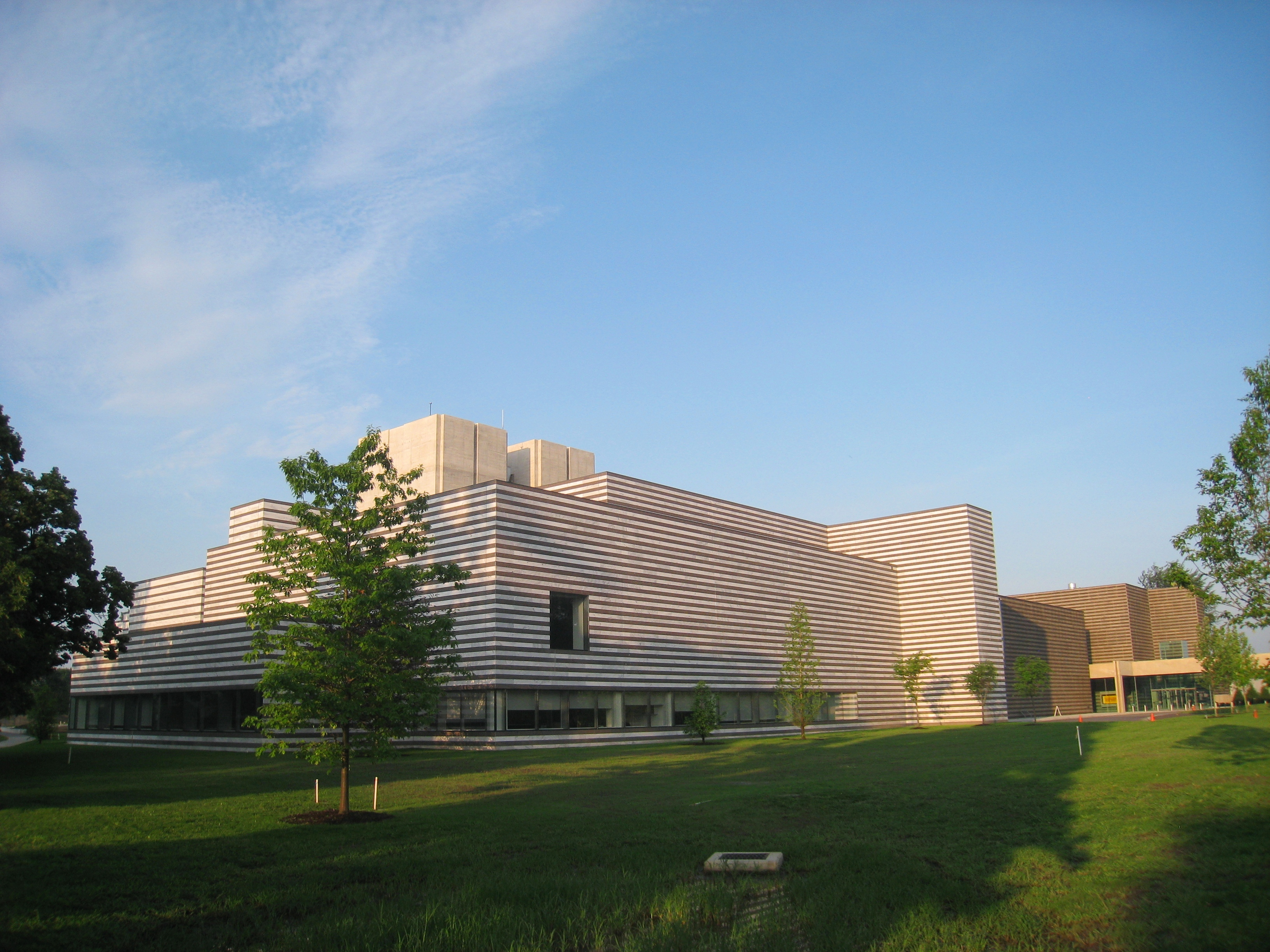 New wing, Cleveland Museum of Art, Cleveland, Ohio, USA.